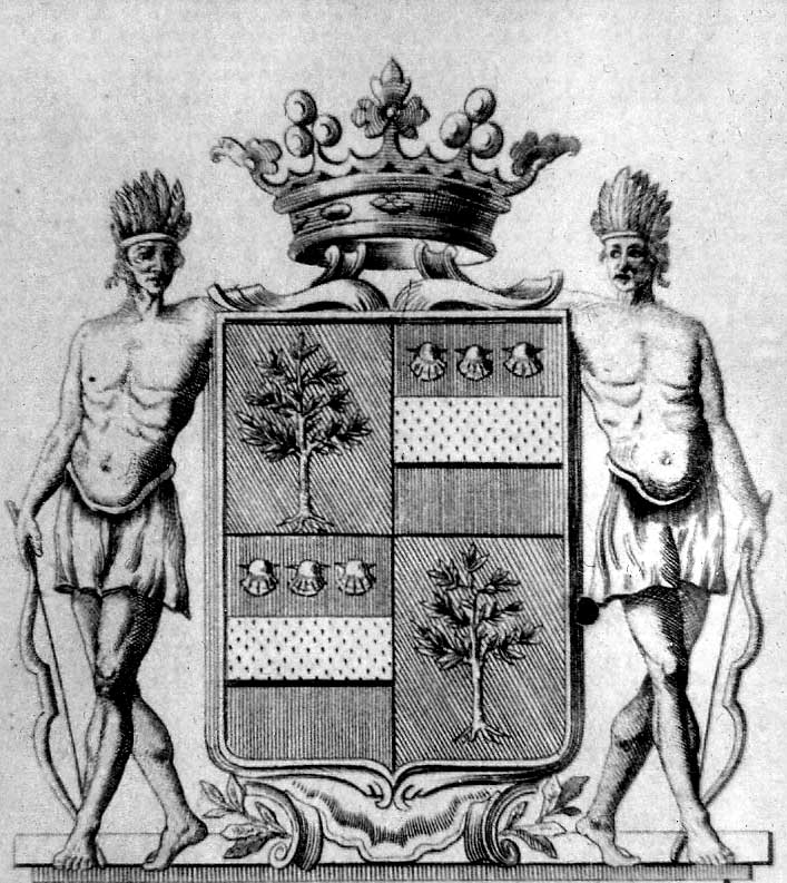 The de La Porte arms (actually the first and third quarters with the olive tree argent on a field of purpure is for La Porte, the seashells quartering them belong to Pellerin).